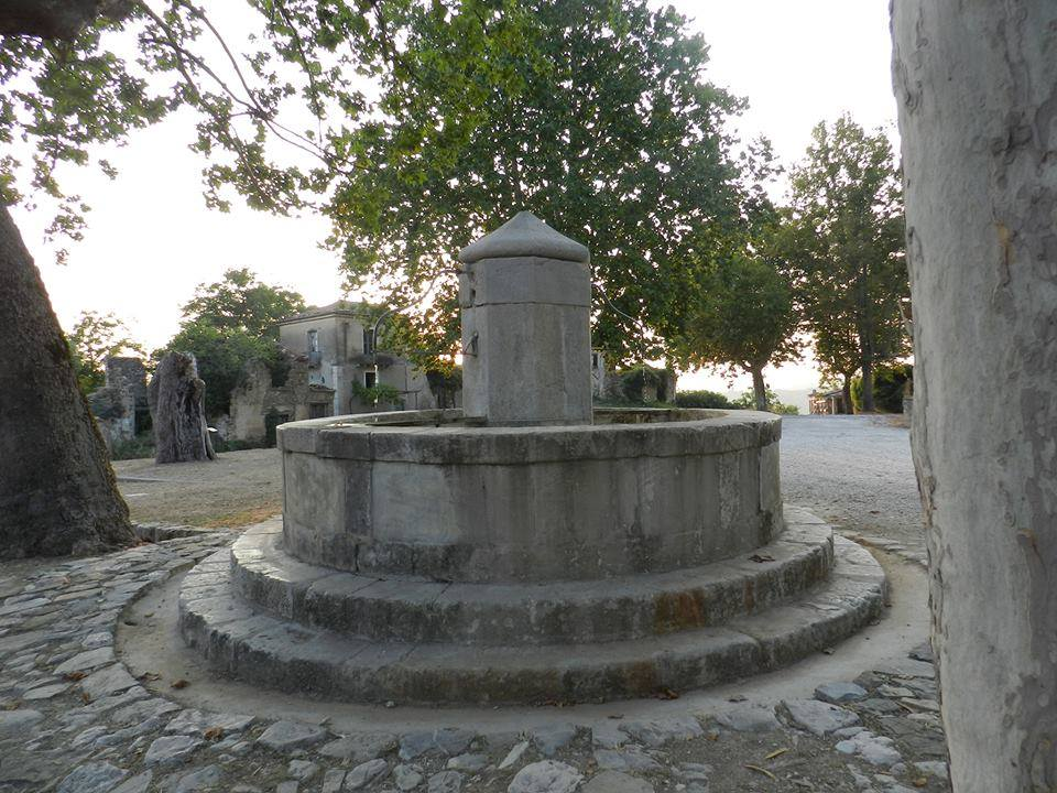 Fountain in Old Roscigno